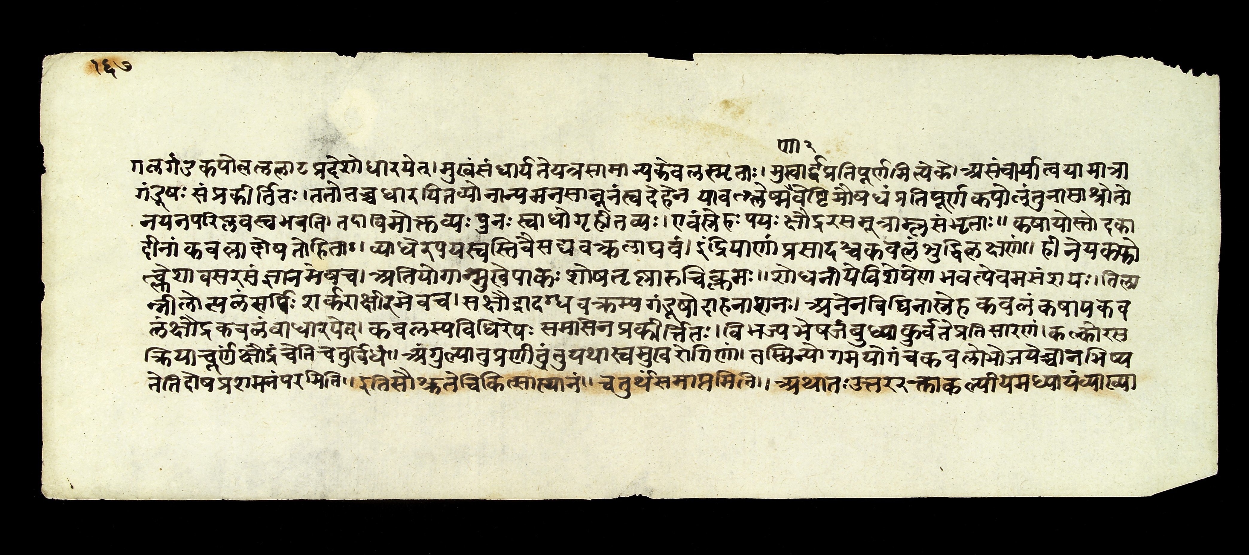 Page of text from the Susrutasamhita, an ayurvedic textbook, on various surgical procedures and surgical instruments. The text presents itself as the teachings of Dhanvantari, King of Kasi (Benares) to his pupil Susruta. Asian Collection